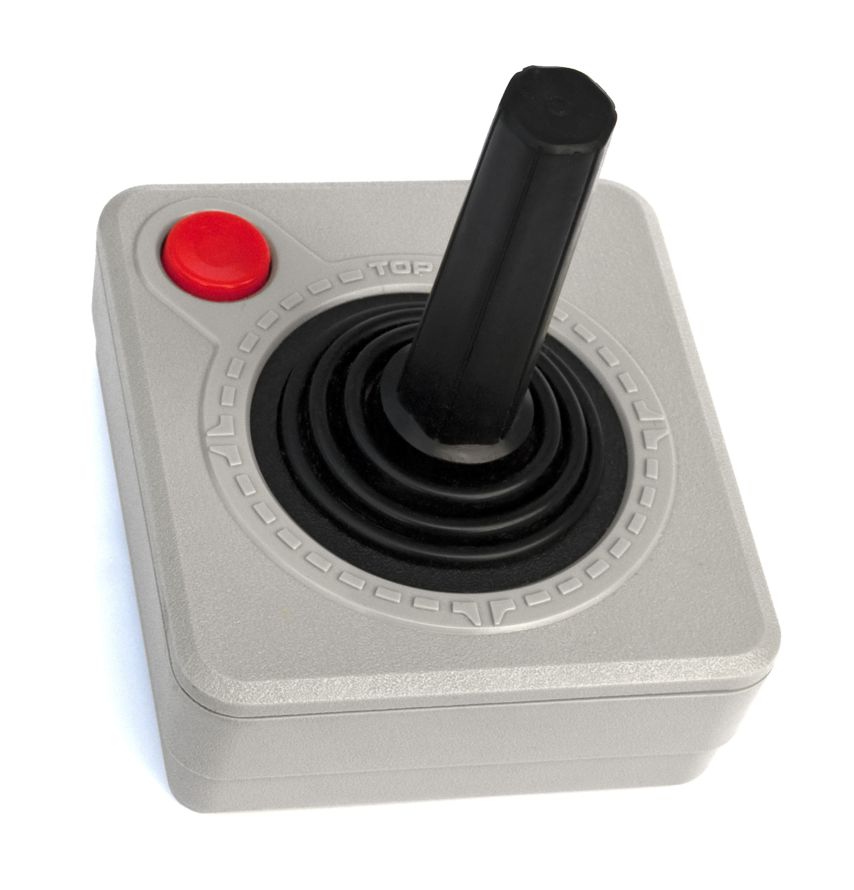 Joystick from the Atari XE. It employs the same design as the original Atari CX40 joystick (created for the VCS/2600 console), although this one uses a gray base to match the colour scheme of the newer XE computers and XE Games Console (XEGS).